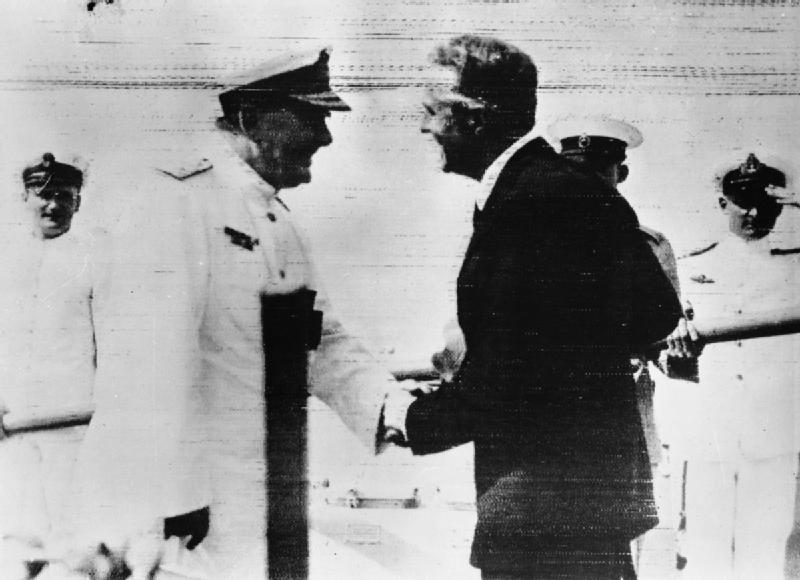 IWM caption : Rear Admiral Sir Henry Harwood is greeted by the British Minister to Uruguay, Mr E Millington-Drake after his arrival at Montevideo. Admiral Harwood arrived in the cruiser HMS AJAX after the Battle of the River Plate and the scuttling of the ADMIRAL GRAF SPEE. Note that this photograph has been reproduced in mirror image.